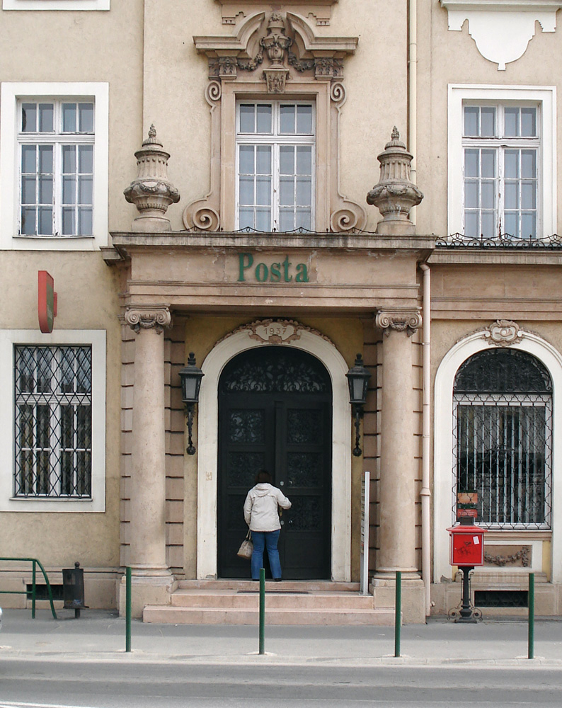 Entrance of the Post Palace, Miskolc, Hungary